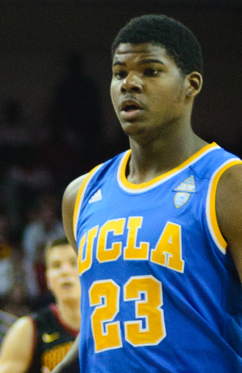 Tony Parker of UCLA Bruins against USC Trojans